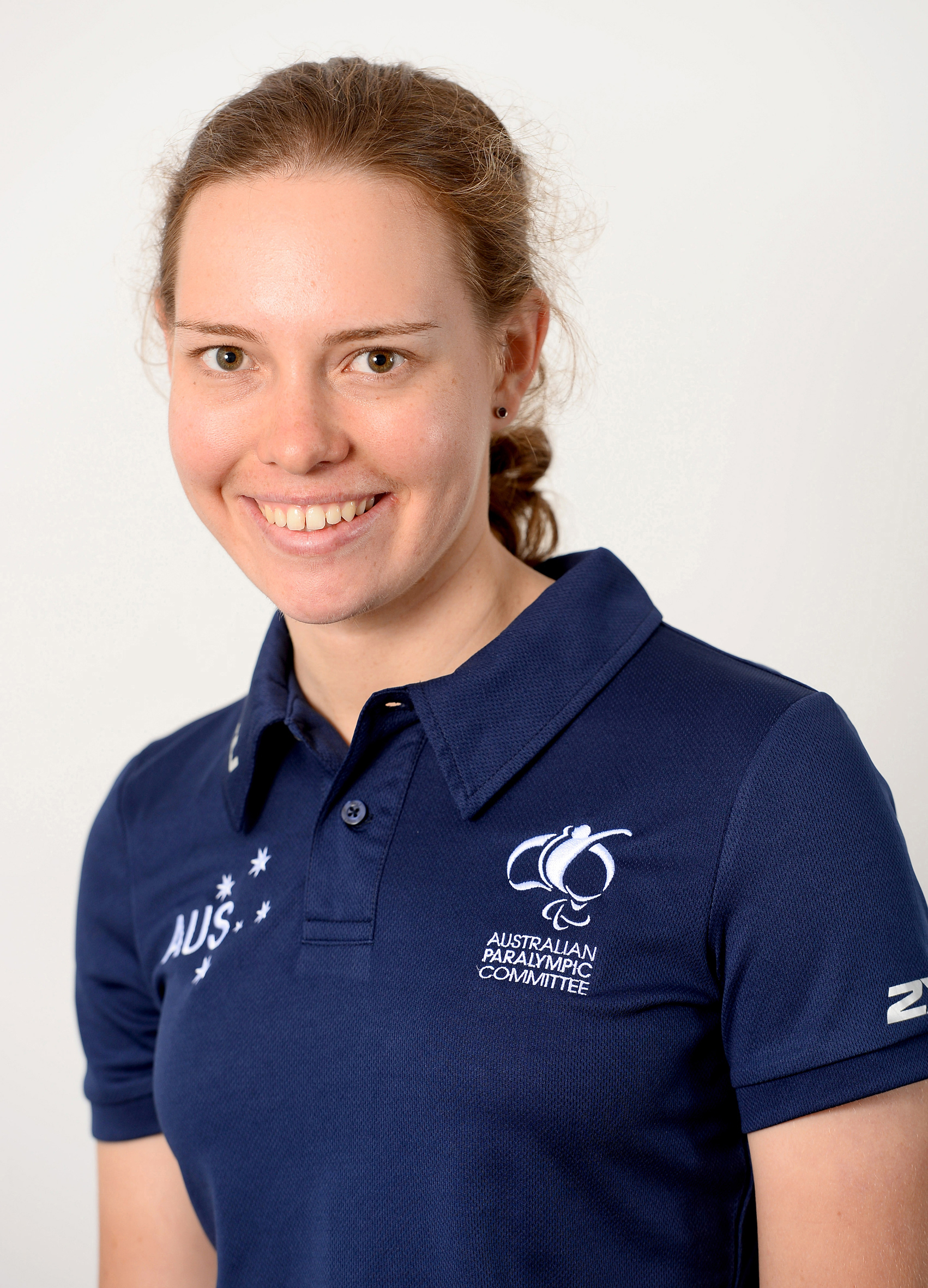 Portrait photograph of Simone Kennedy taken at team processing session for shadow members of 2016 Australian Paralympic team